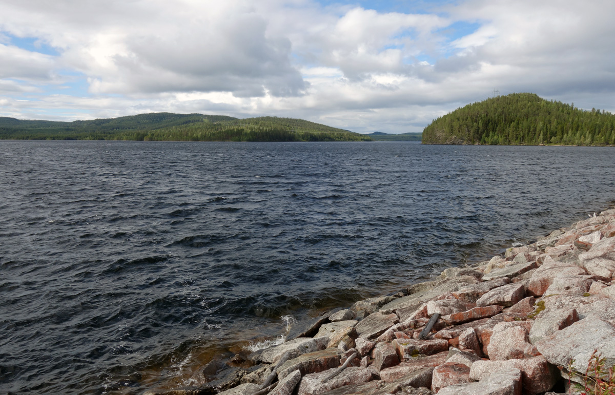 The hydroelectric dam Grundforsdammen in the river Umeälven, northern Sweden.